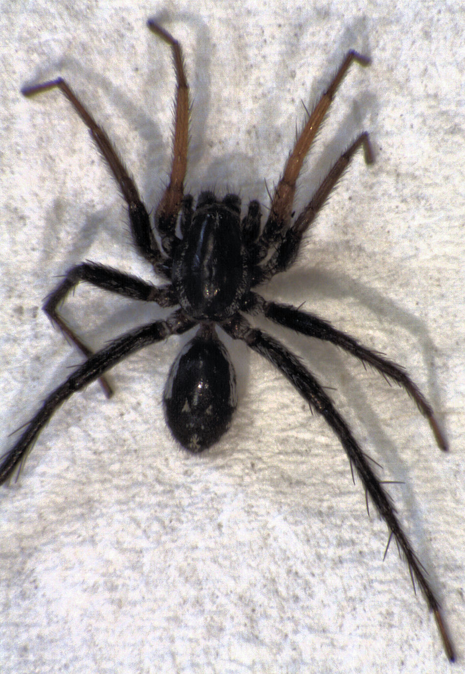 Supunna picta (male)